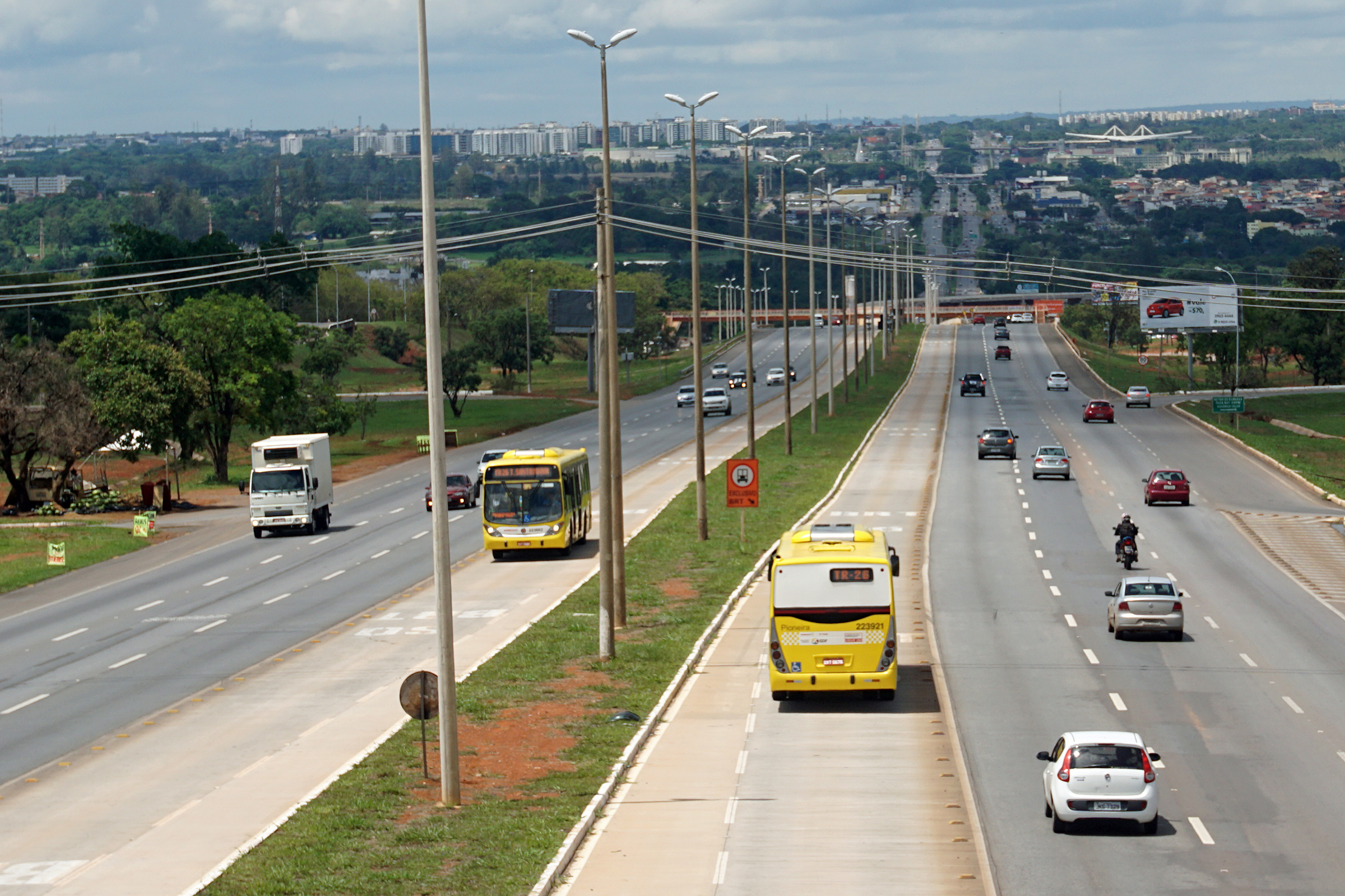 BRT Expresso DF Sul. Brasilia, Brazil